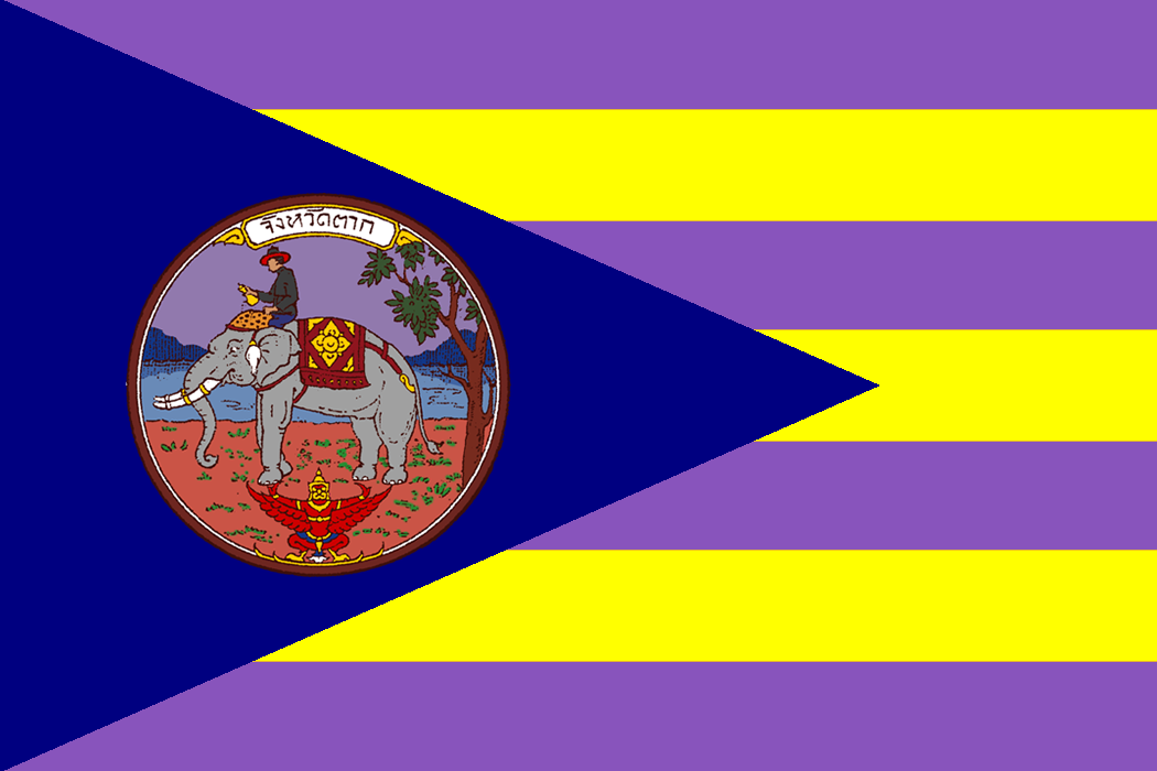 Flag of Tak Province